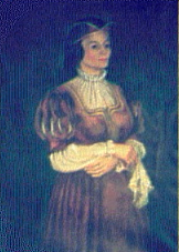 Kanizsai Dorottya